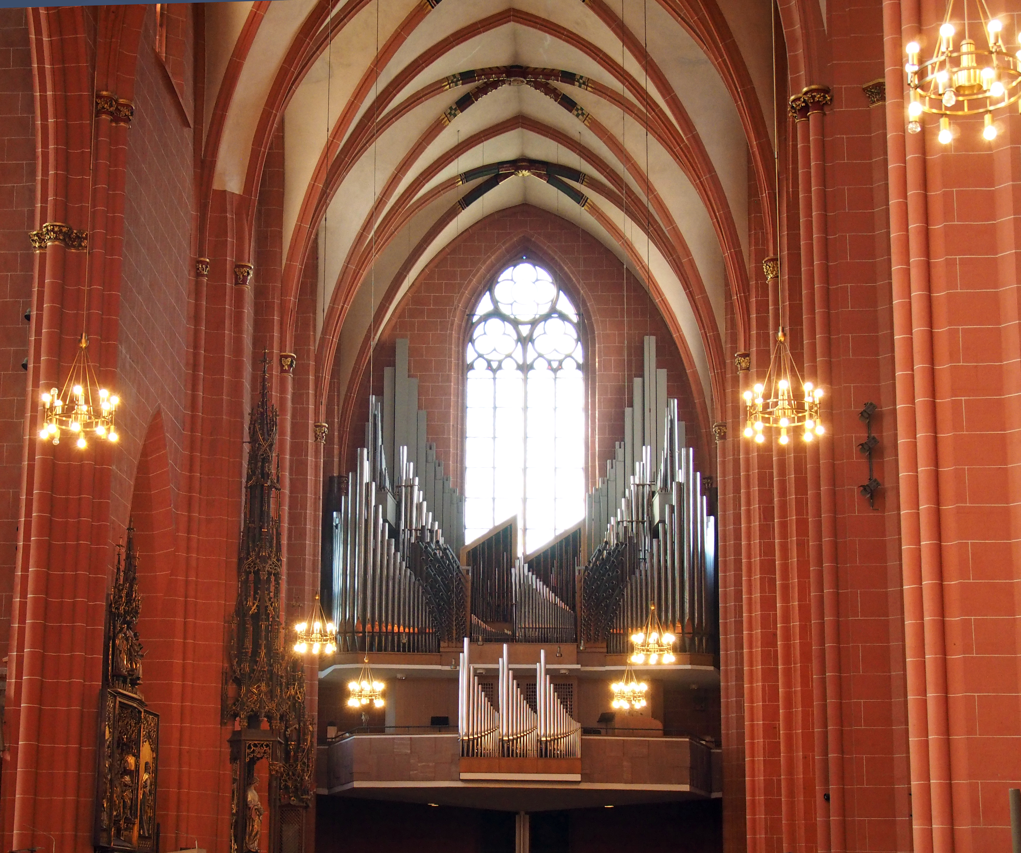 Organ of Cathedral Saint Bartholomäus in Frankfurt, Germany.